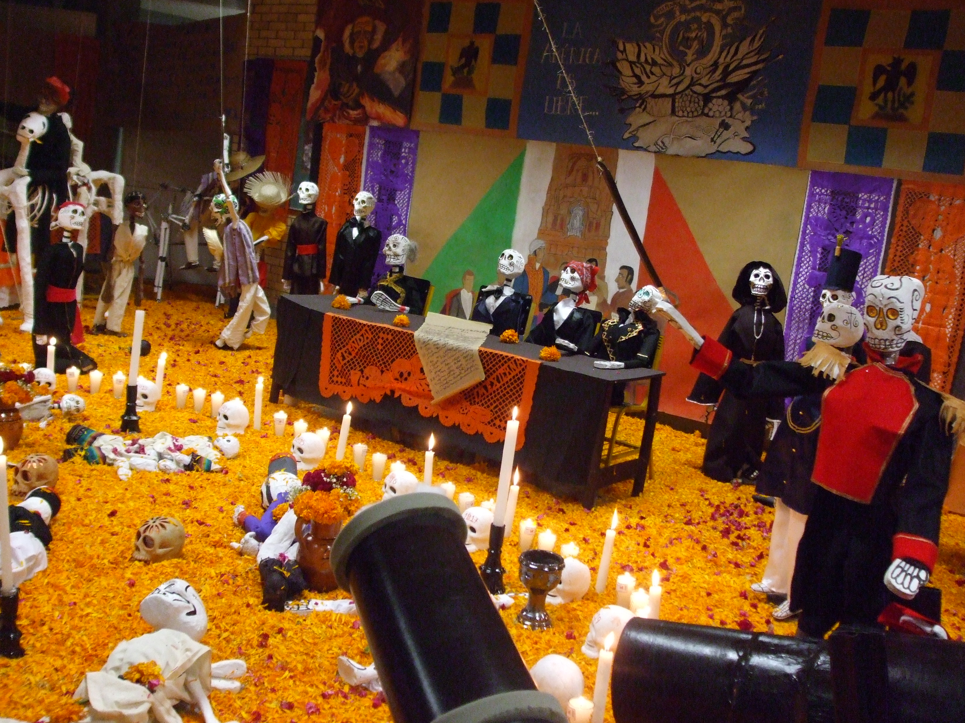 Day of the dead offerings dedicated to the Mexican War of Independence, completed by the School of History turno Vespertino. UNAM- ENP plantel 2. Aurelio MG